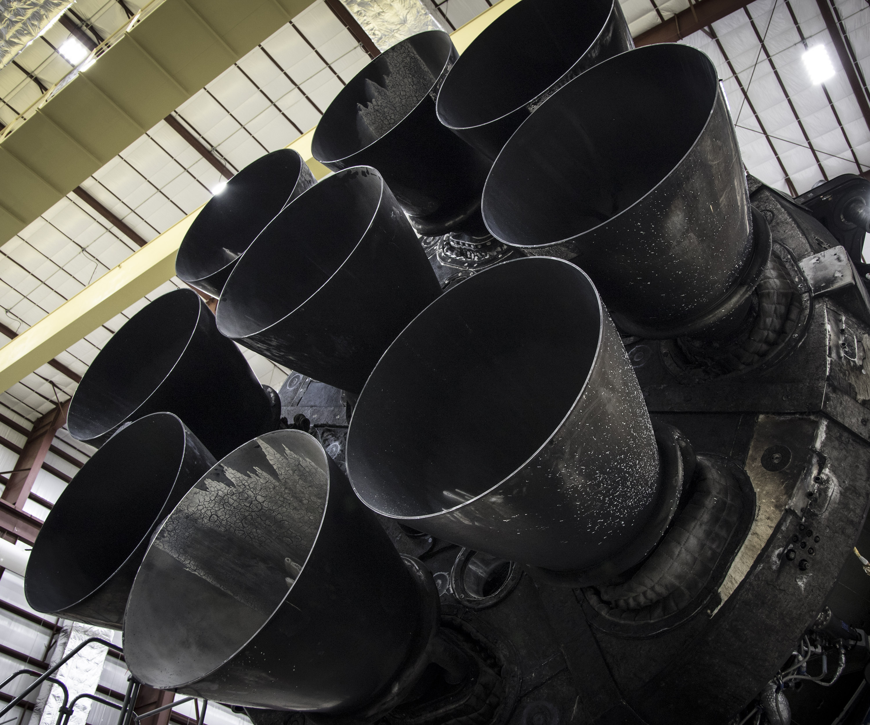 Falcon 9 B1019 first stage engines after its flight, Flight 20, to launch eleven Orbcomm satellites. The first stage landed at Cape Canaveral and was moved to SpaceX's hangar at Pad 39A.